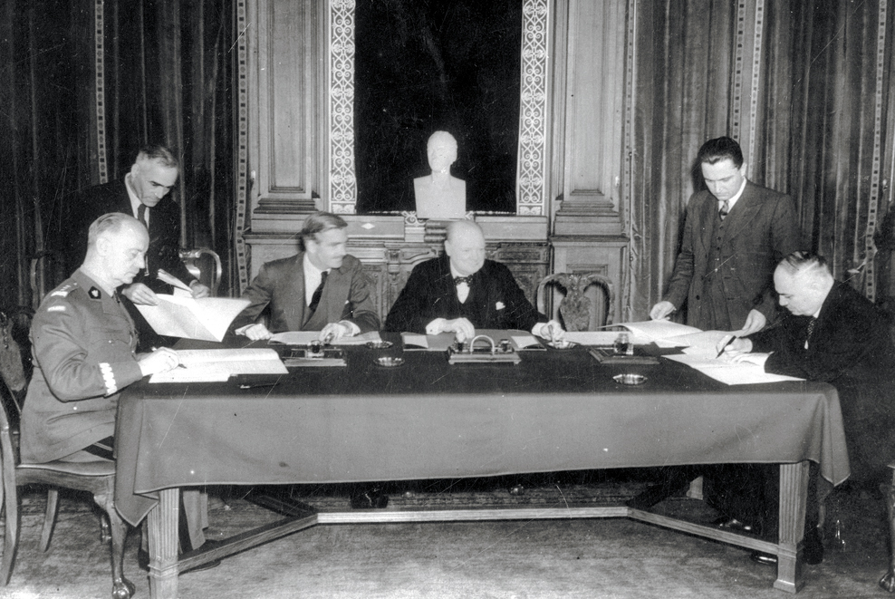 Sikorski-Mayski_1941_agreement. An official photo of Polish Goverment in Exile